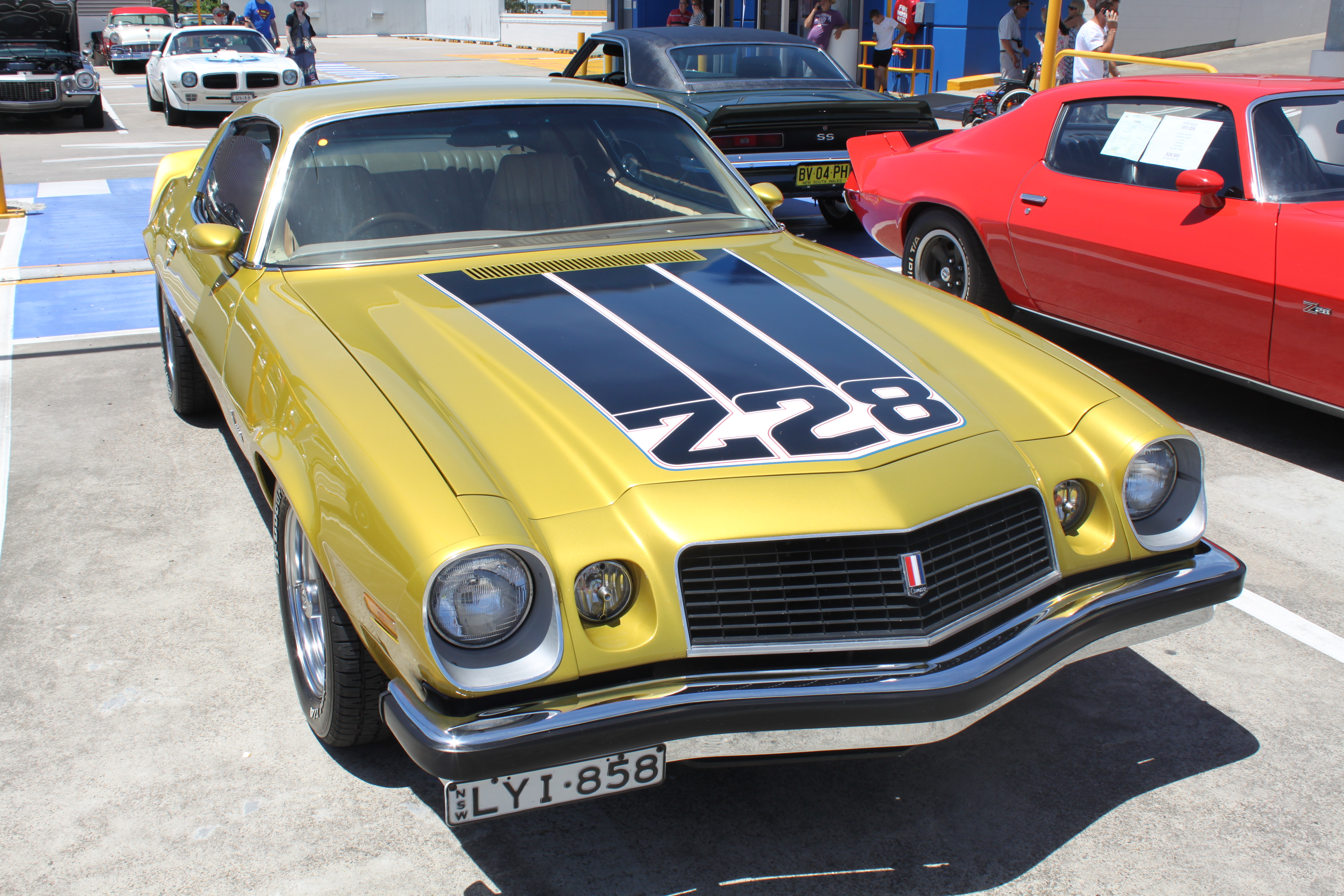 American Car Show, Castle Hill, NSW 2015